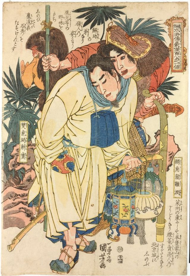 Zou Run (鄒潤) and Xie Bao (解寶) disguised as a hunter and lantern seller respectively, Xie Bao (解寶) whispering into Zou Run (鄒潤)'s ear